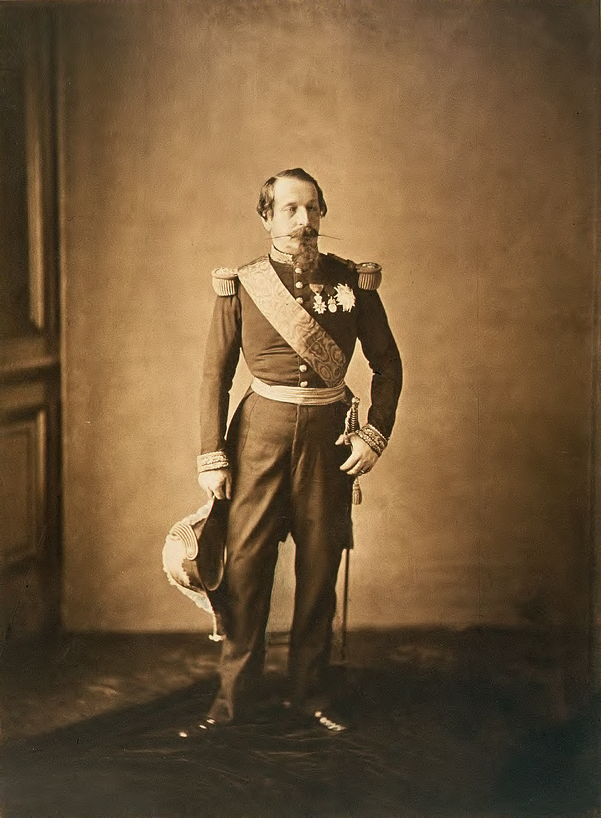 Albumen print of Napoleon III